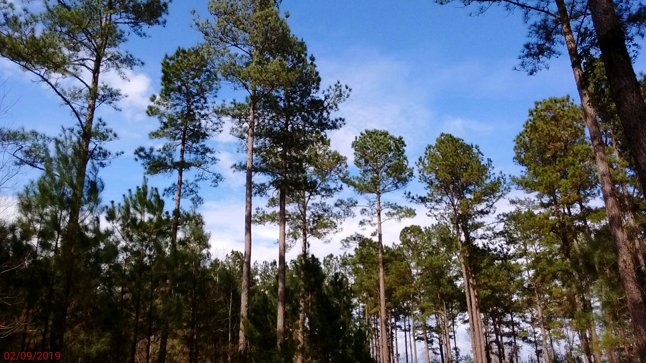 Loblolly pine (Pinus taeda) shelterwood cut with natural regeneration in south Mississippi, USA